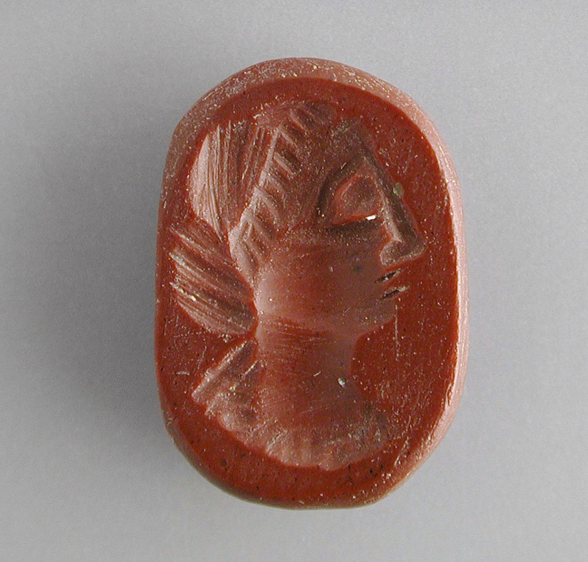 Eastern Mediterranean, Roman, 332 B.C.-A.D.395 Tools and Equipment; seals Stone Gift of Jerome F. Snyder (M.80.202.421) Greek, Roman and Etruscan Art